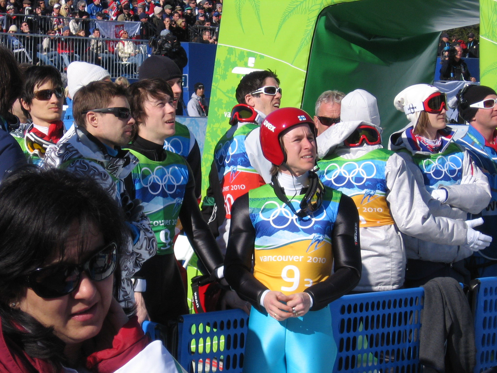 Martin Scmitt (from left), Matti Hautamäki, Janne Happonen and Kalle Keituri at 2010 Winter Olympics. Tom Hilde is second from right.